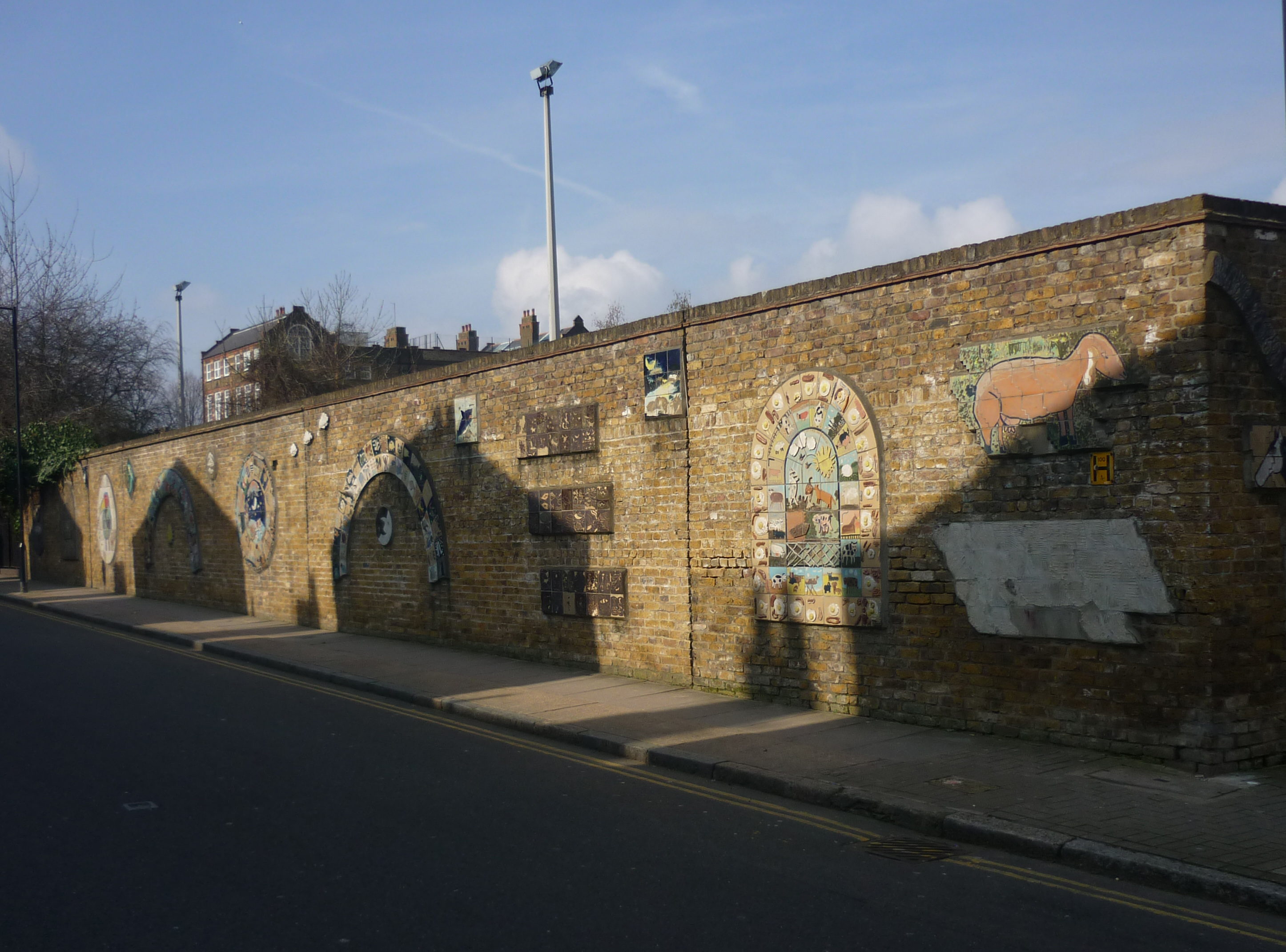 Boundary wall, Freightliners Farm, Sheringham Road, London N7 Shadows on the decorated boundary wall of Freightliners inner city farm